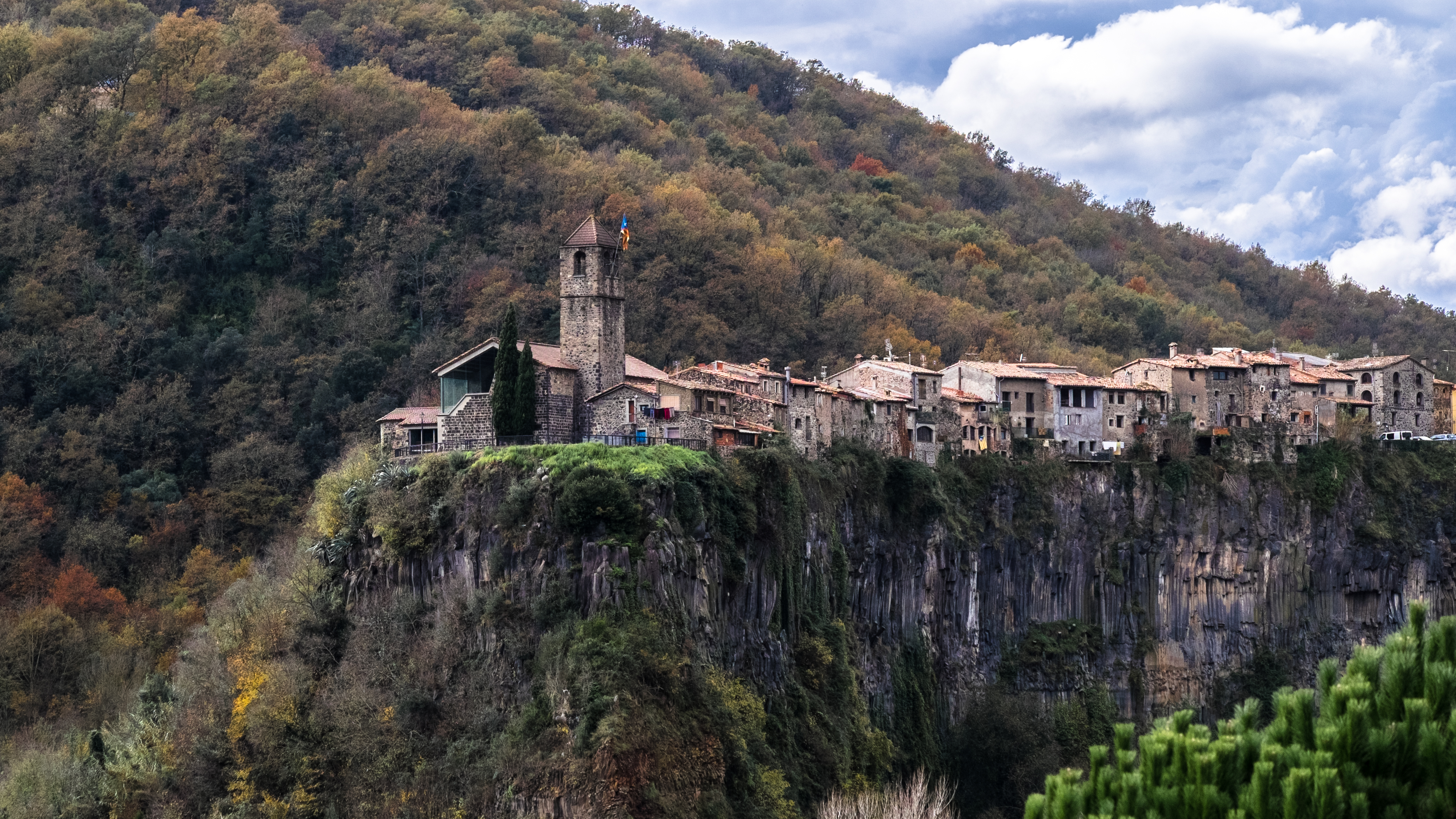 Castellfollit de la Roca in November.